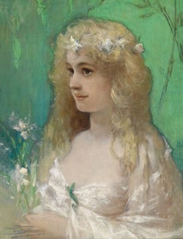 Ophelia